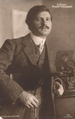 The Russian violinist Alexander Petschnikoff (1873-1949)